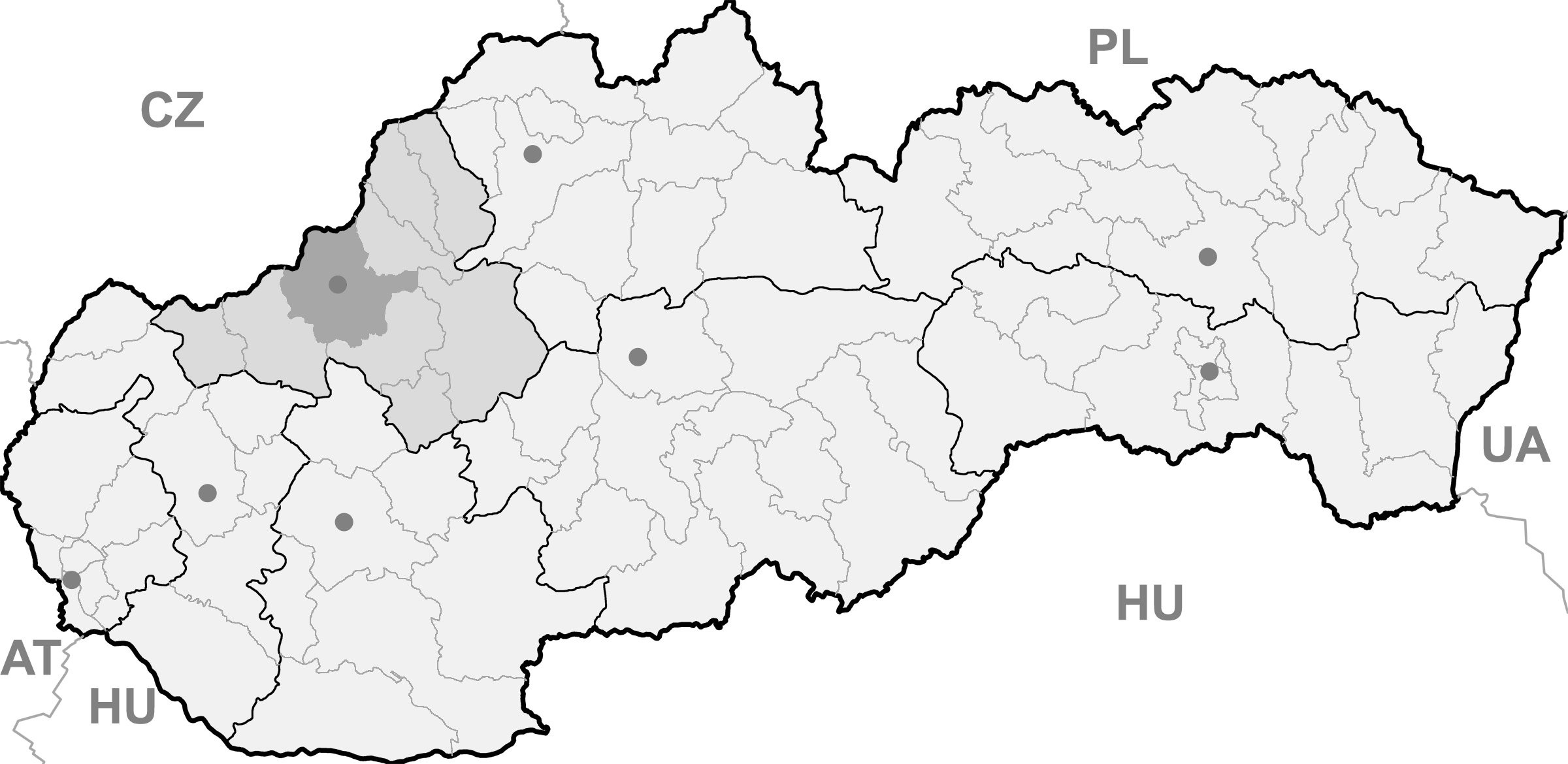 Map of Slovakia, Trencin district and Trencin region highlighted